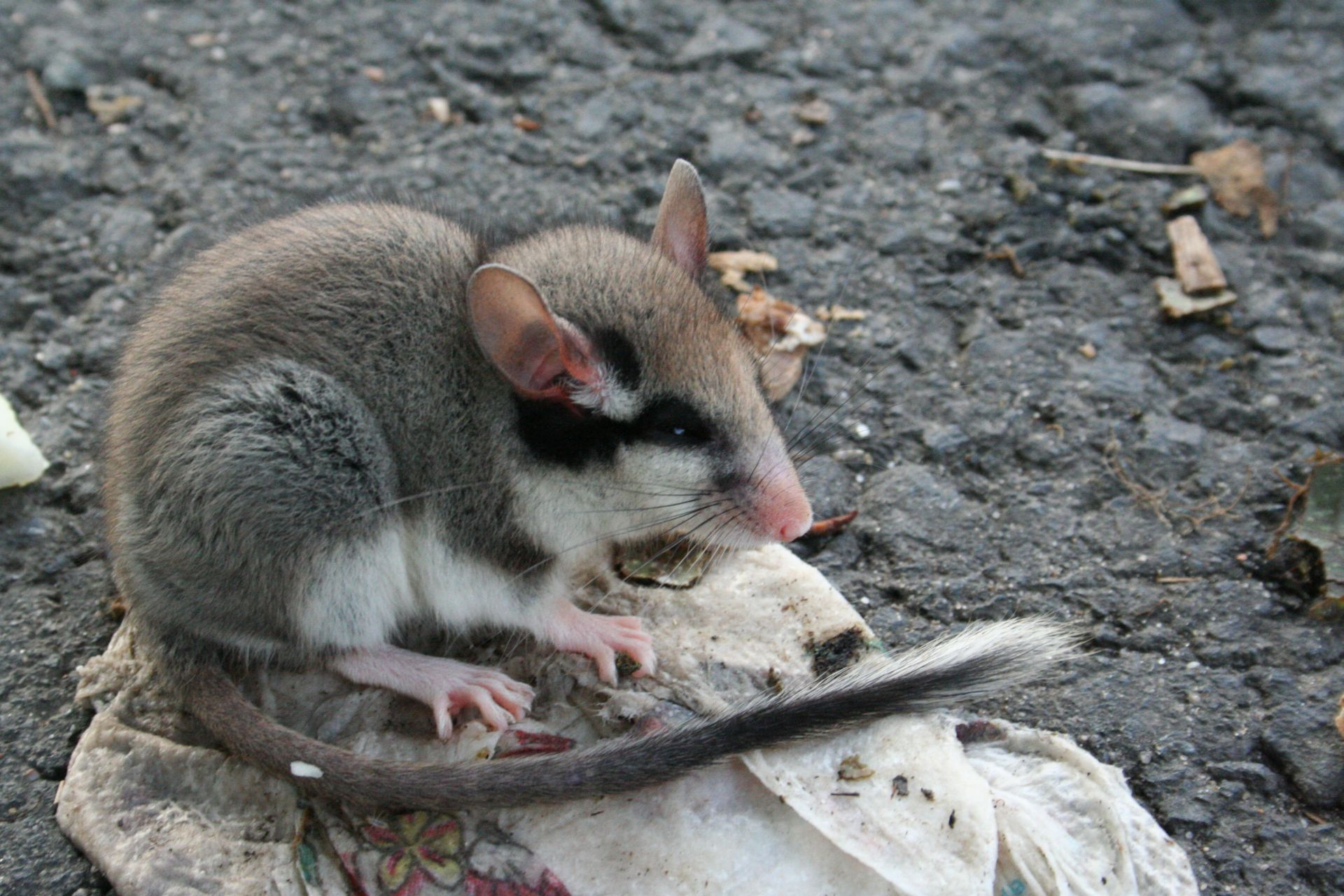 Description = Gartenschläfer Source = Own work, Canon EOS 350D Date = 2006-10-04 (image taken on that day) Author = Christian "Asseus" Flach Permission = Own work, copyleft. Multi-license with GFDL and Creative Commons CC-BY-SA-2.5 and older versions (2.0 and 1.0)